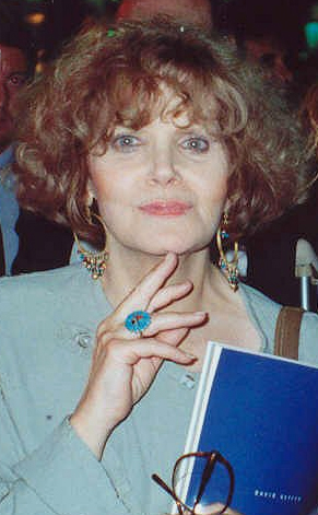 Eileen Brennan at the AIDS Project Los Angeles (APLA) benefit, Los Angeles- Sept. 1990